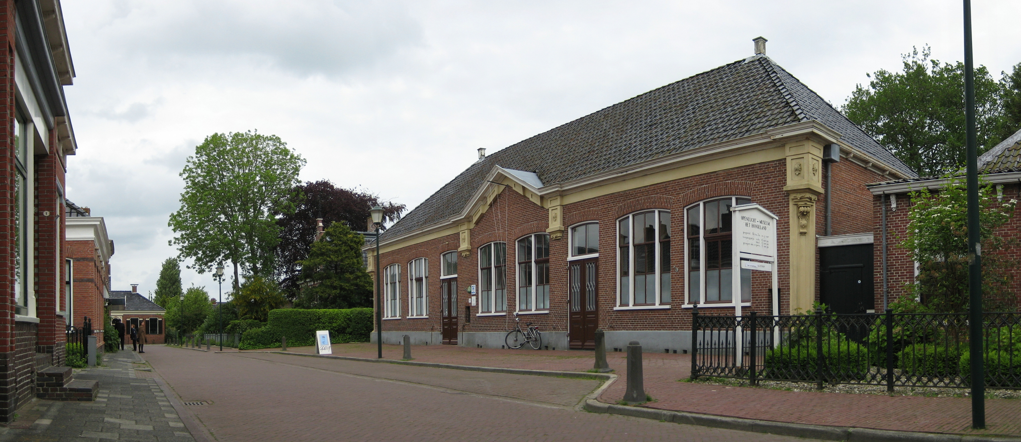 The main building of the open air museum Het Hoogeland in Warffum, a village in the Dutch province of Groningen.